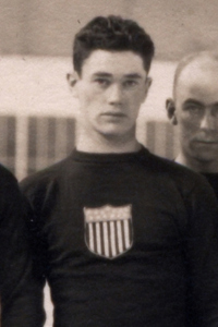 American ice hockey player Gerry Geran representing the US national ice hockey team at the 1920 Summer Olympics in Antwerp, Belgium. The picture is a crop out of a larger team photo taken inside the ice rink Palais de Glace d'Anvers. The ice hockey tournament at the 1920 Summer Olympics took place between April 23 and April 29. The american team won silver medals at the games.